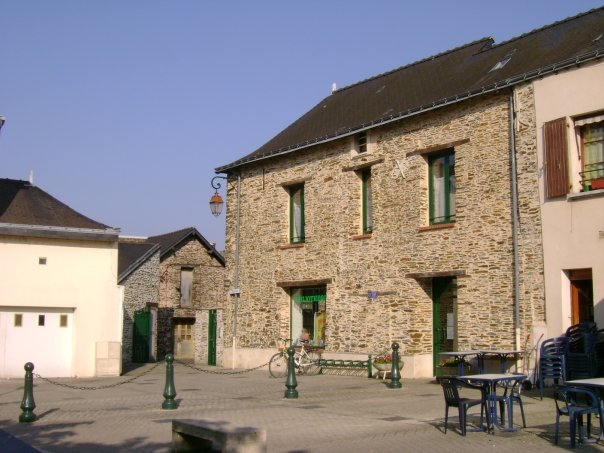 Market place and library, Candé, 49, France